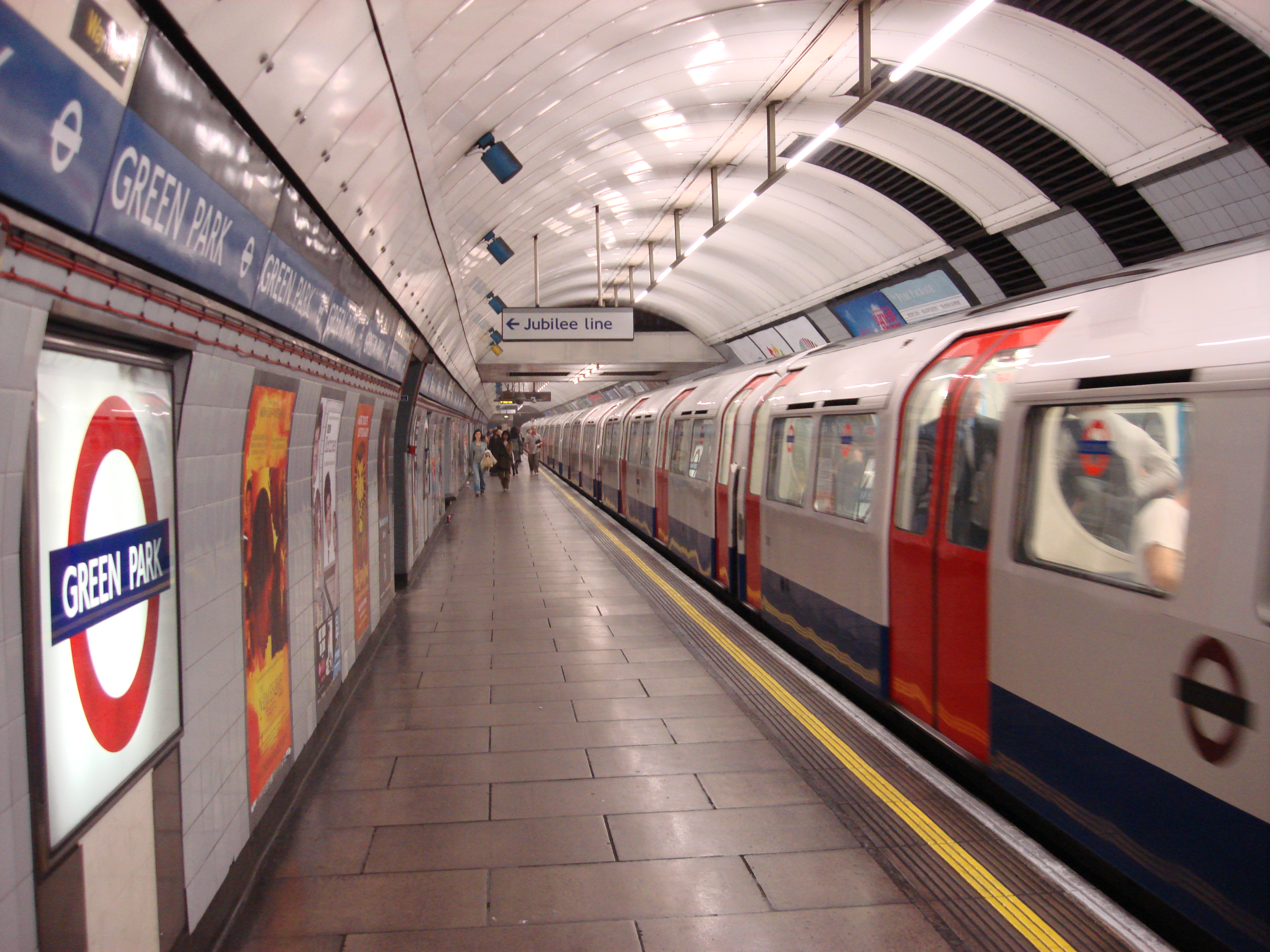 A train on the Victoria line platforms at Green Park tube station